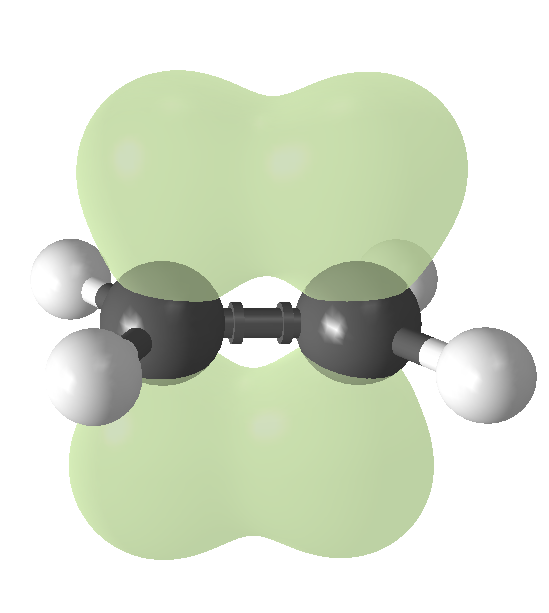 Ethylene (ethene) - 3D model with p orbitals.